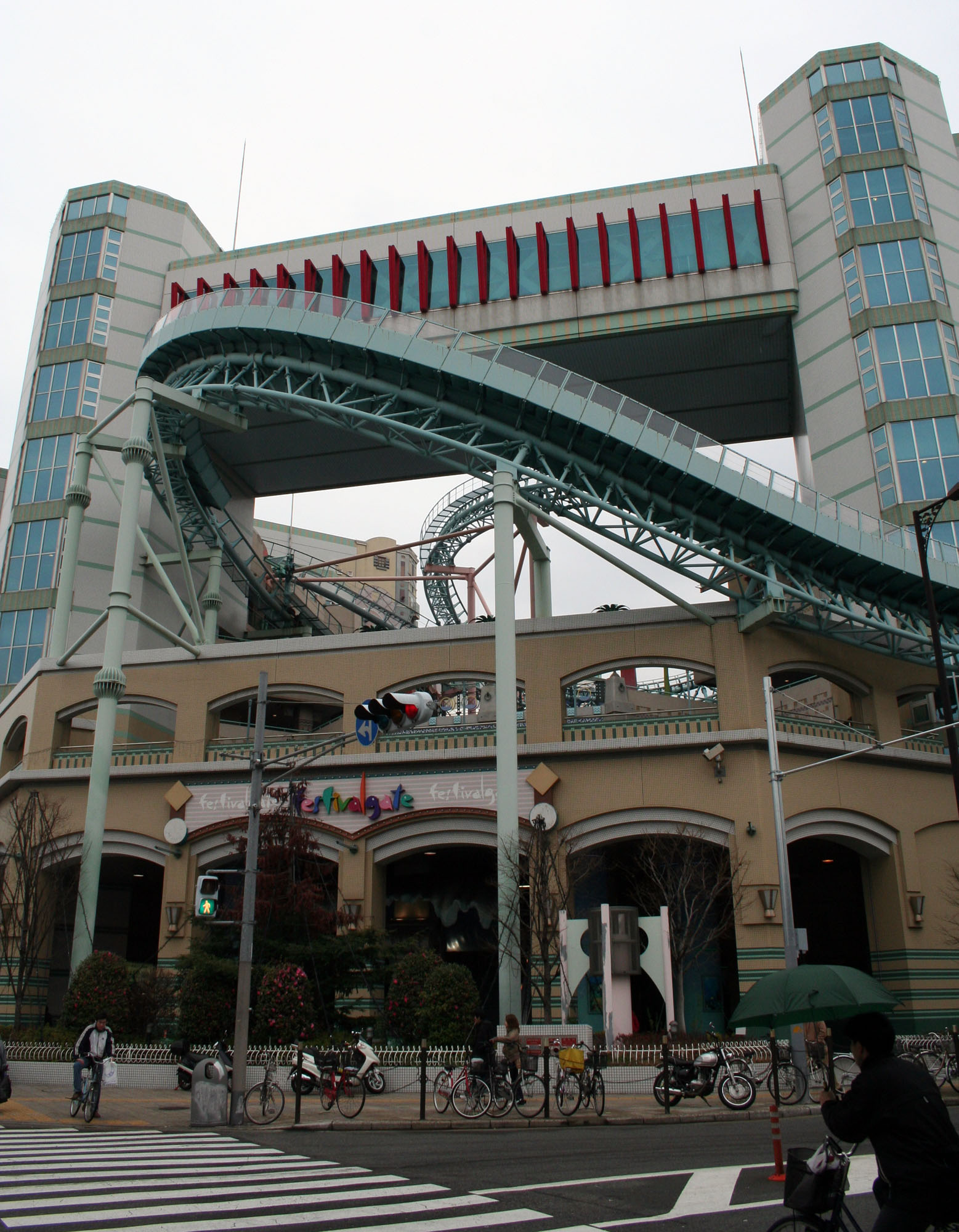 Taken at Festival Gate in Osaka.